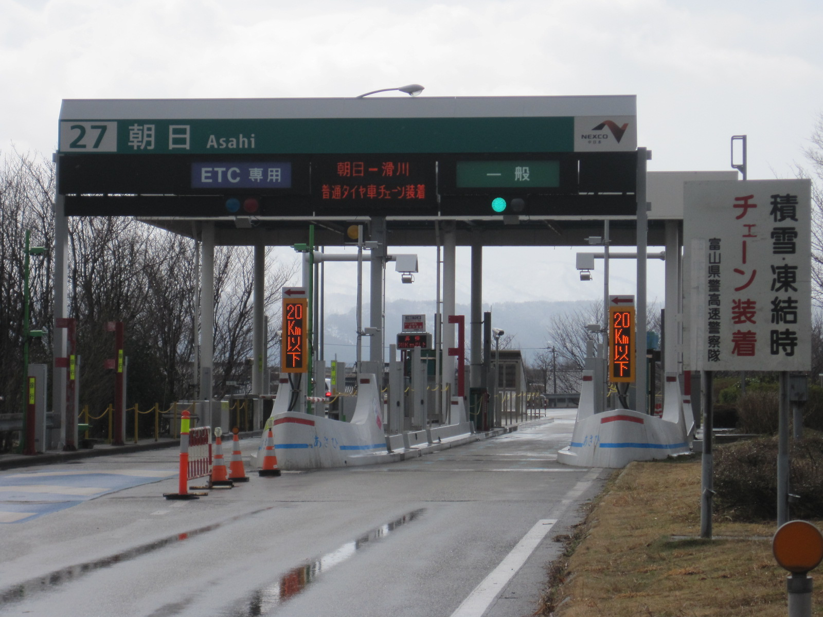 Asahi Inter Change(Hokuriku Expressway, Toyama prefecture, Japan)